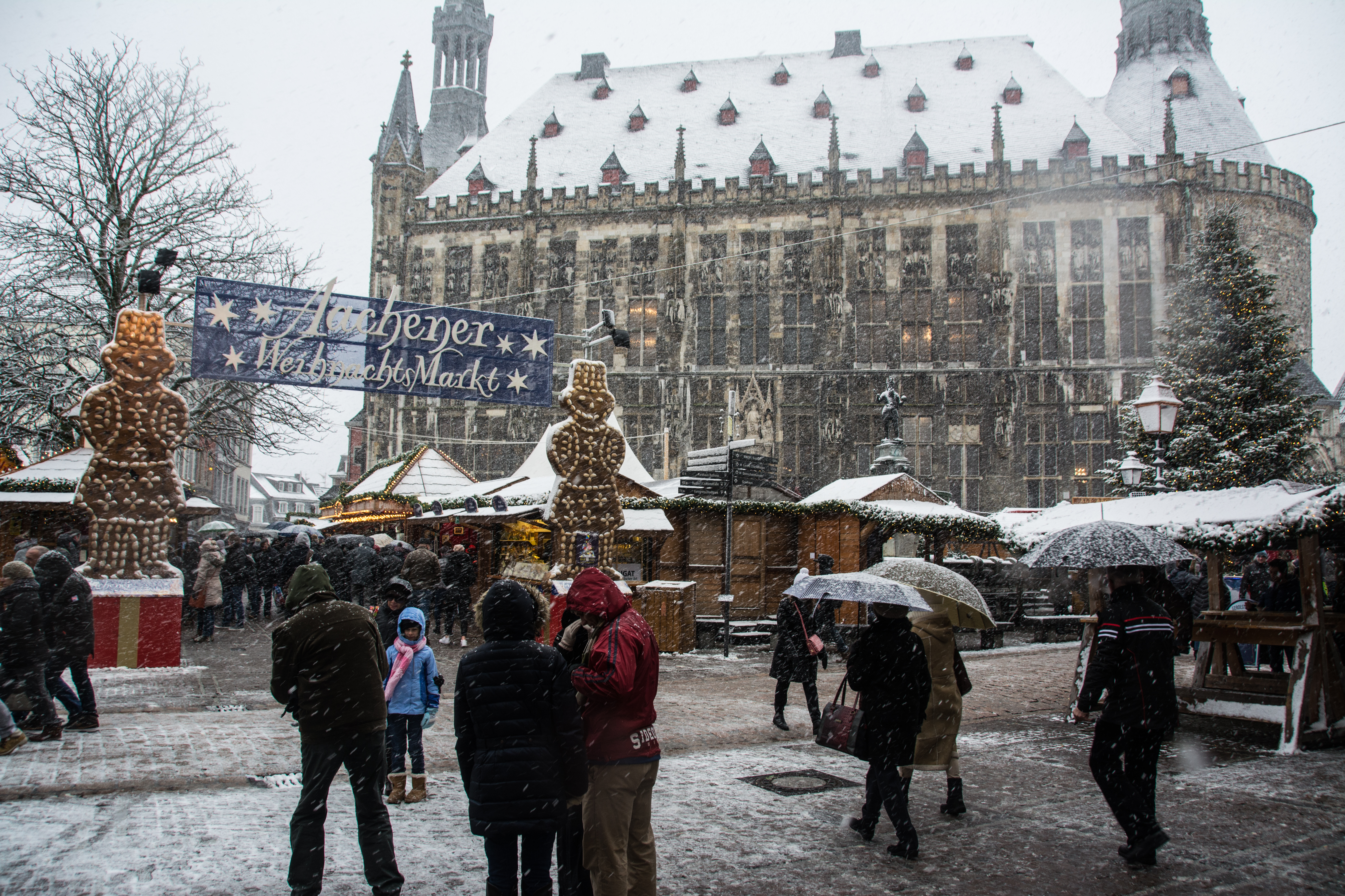 Entrance Aachen Christmas Market in a snowy day in December 2017